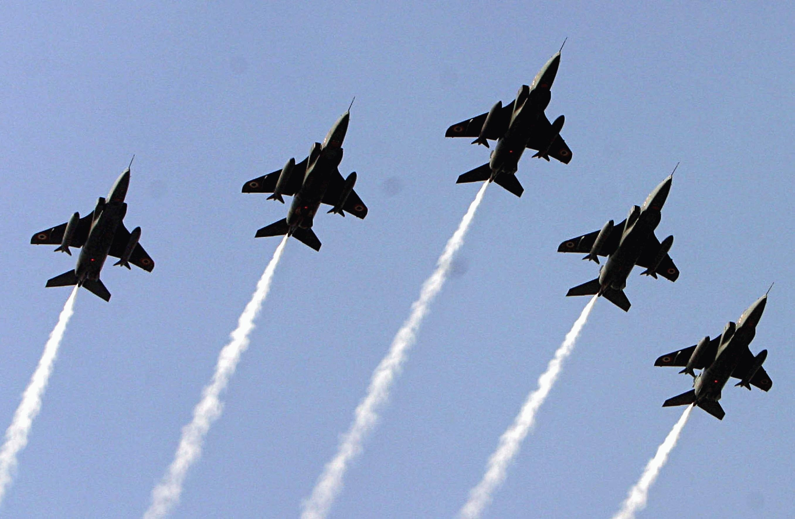 IAF Jaguars at the Republic Day Military Parade, New Delhi.